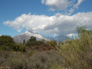 View of the San Gabriel Mountains, seen from the Robert J. Bernard Field Station in Claremont, part of the Claremont Colleges located in Los Angeles County, Southern California. Foreground shows native flora of the Coastal sage scrub plant community, which comprises ⅔ of the site.